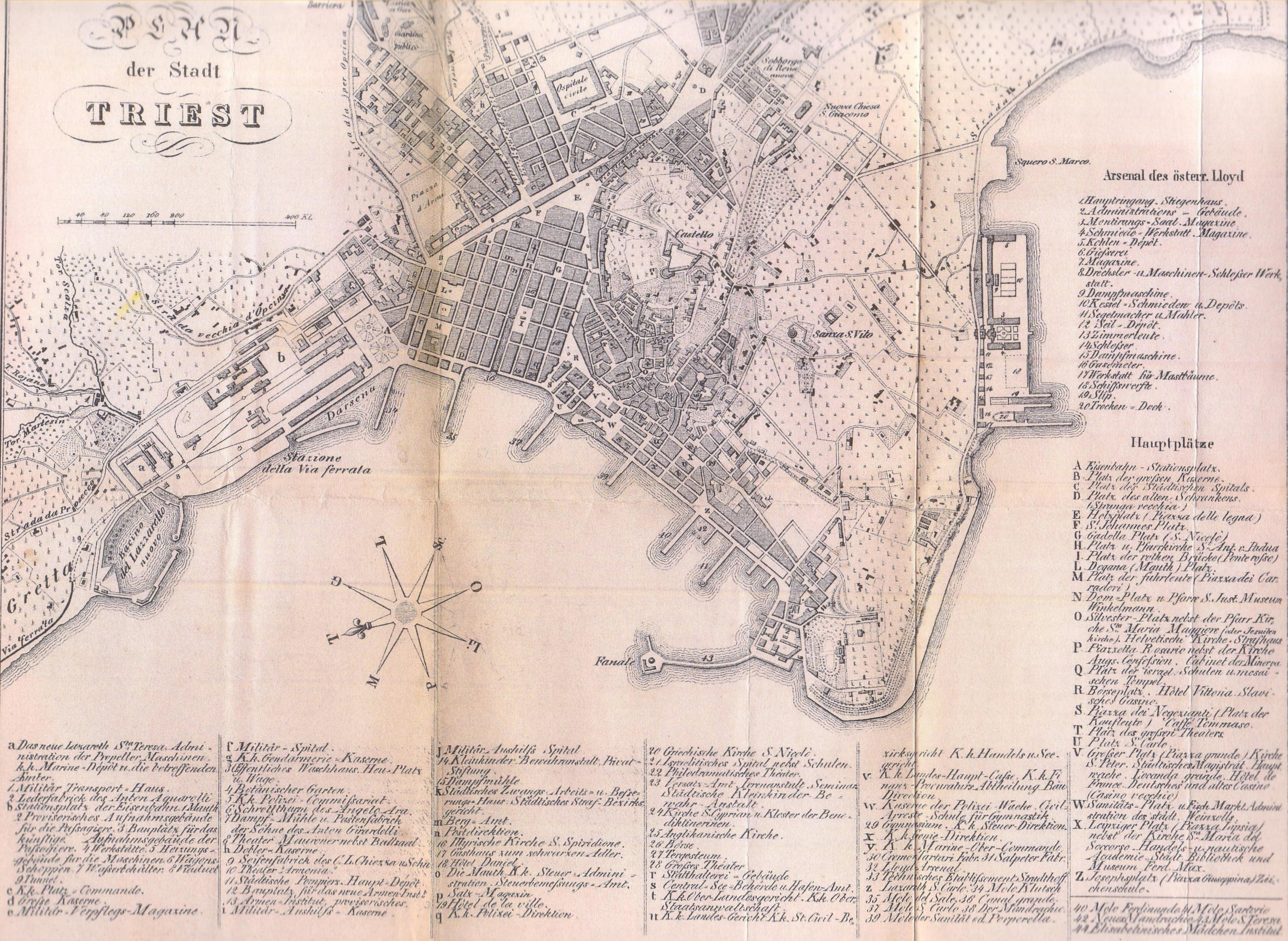 Town map of Triest ca. 1857